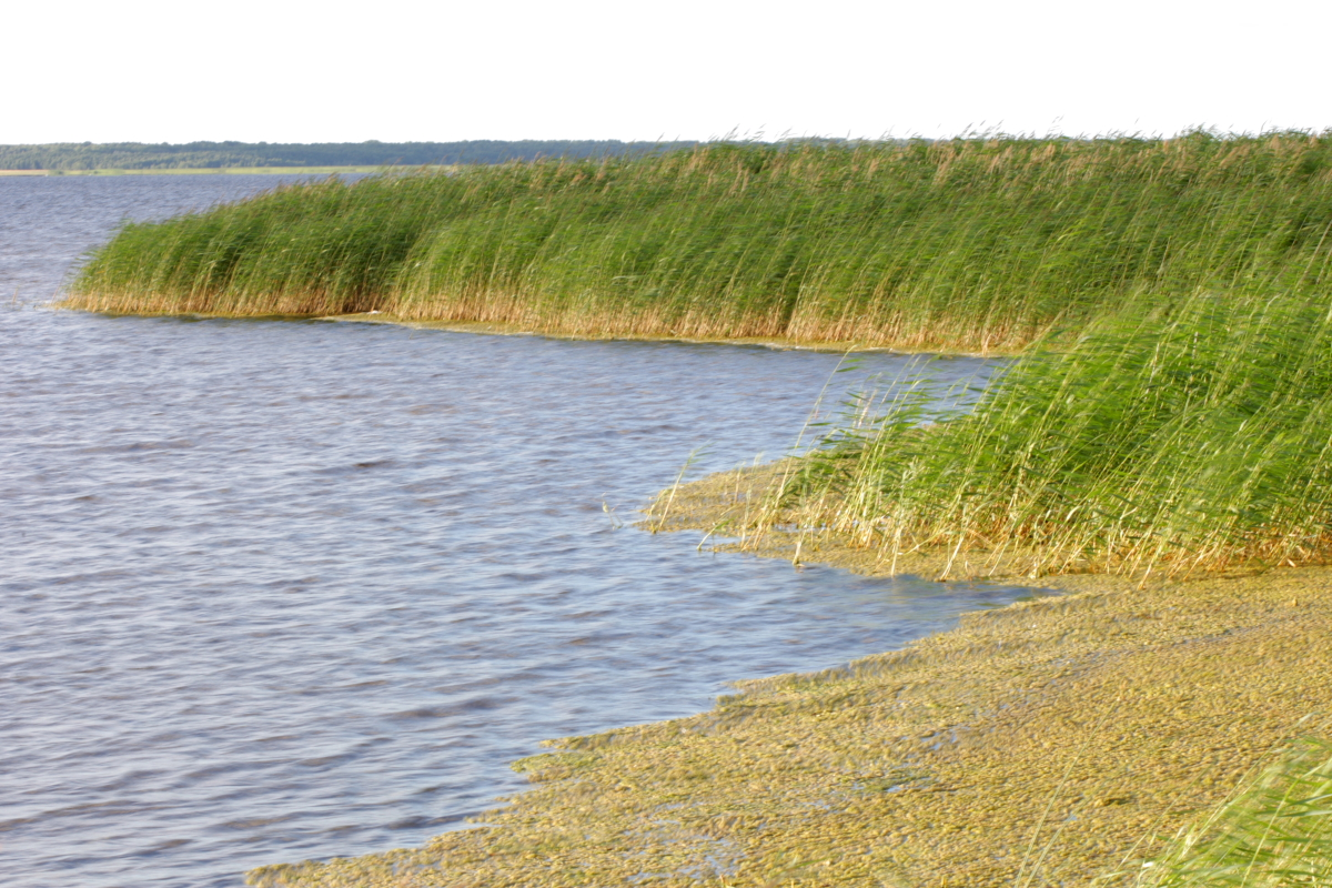 Matsalu National Park, Lääne County, Estonia